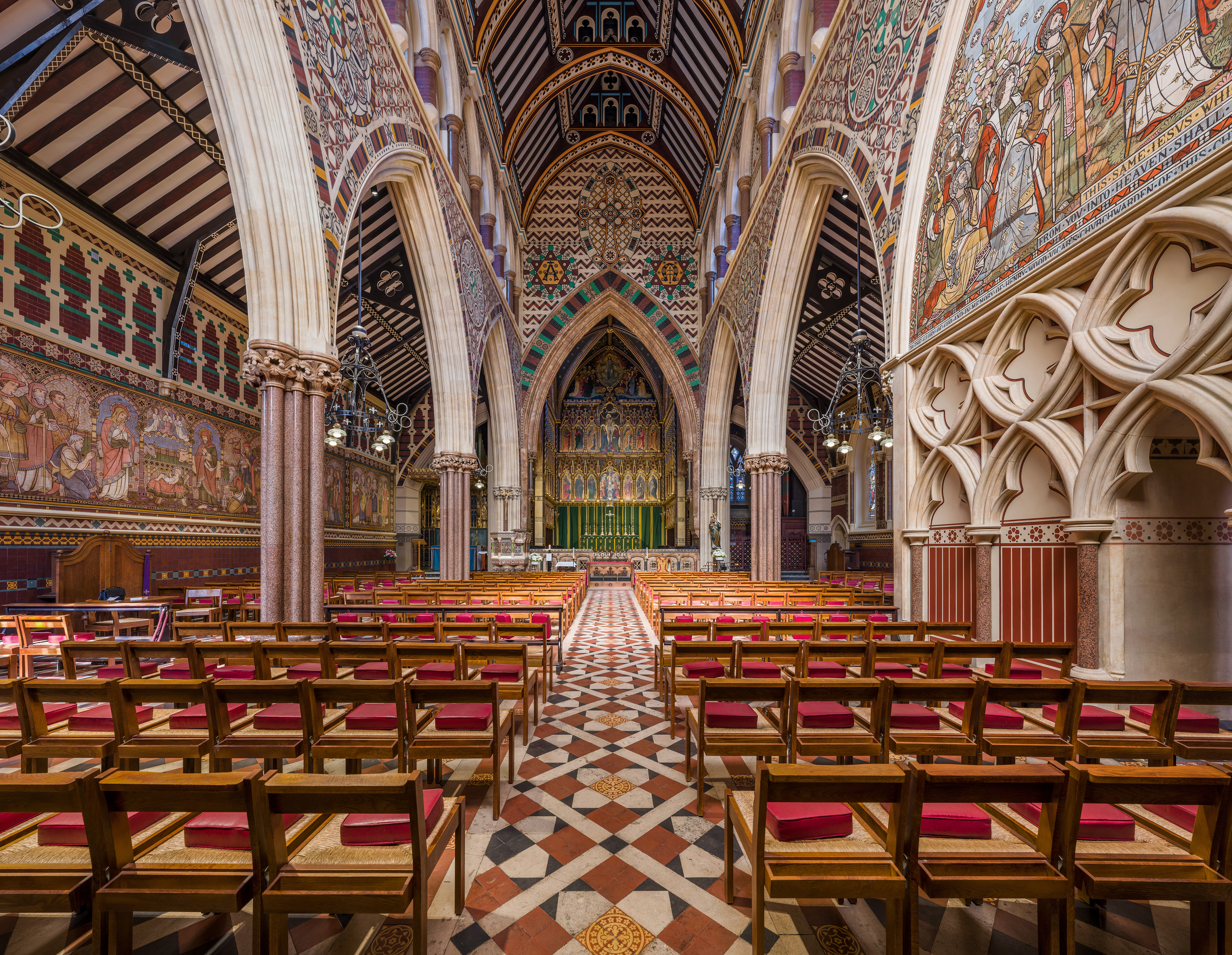 The interior of All Saints Margaret Street Church in London, England.